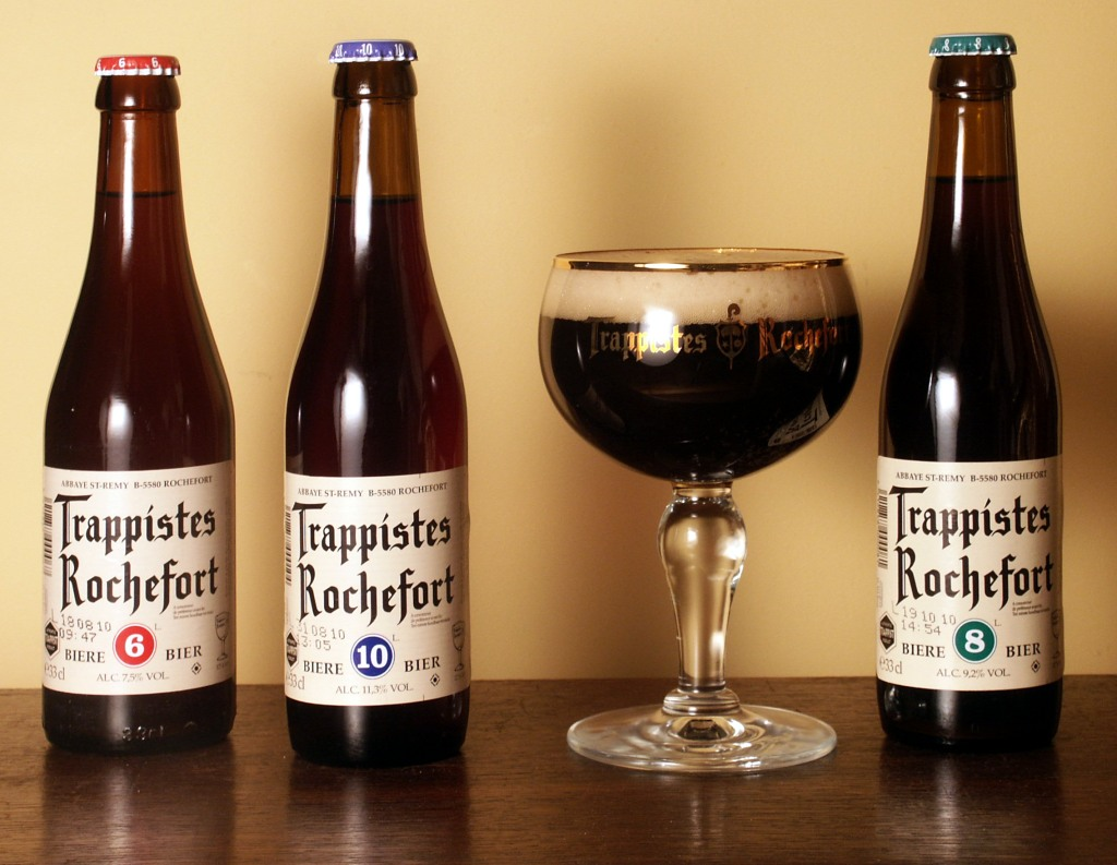 The three varieties of beer produced by the Brasserie de Rochefort brewery. In the glass is Rochefort 10.